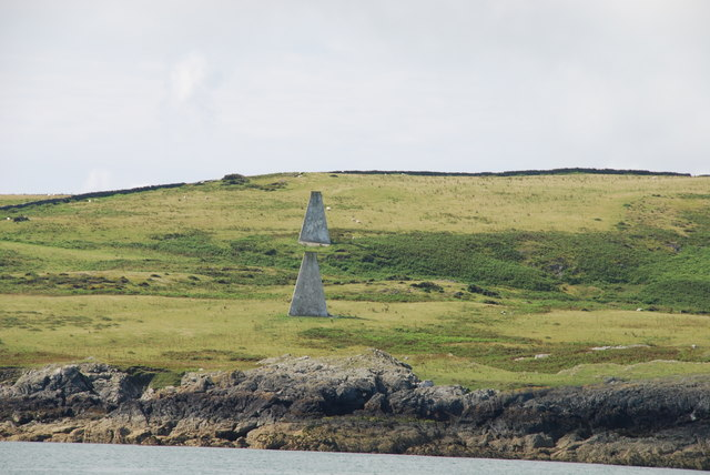 Navigation Beacons, Carmel Head These beacons line up with West Mouse & Coal Rock